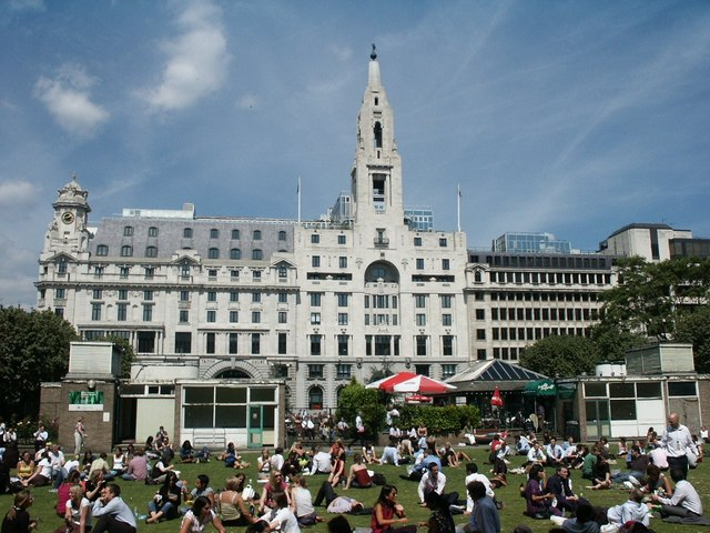 Summer at Finsbury Square Hot summer day in London. The imposing Triton House stands over City workers taking a lunchtime break on a summer's day in Finsbury Square.